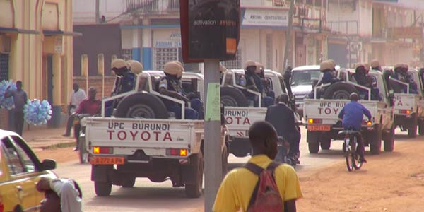 Police officers from Burundi patrol the streets of Bangui, part of a multinational peacekeeping force helping to restore calm to the Central African Republic. But with the exception of French forces, most of the international units are widely seen as ineffectual. (VOA/Bagassi Koura)